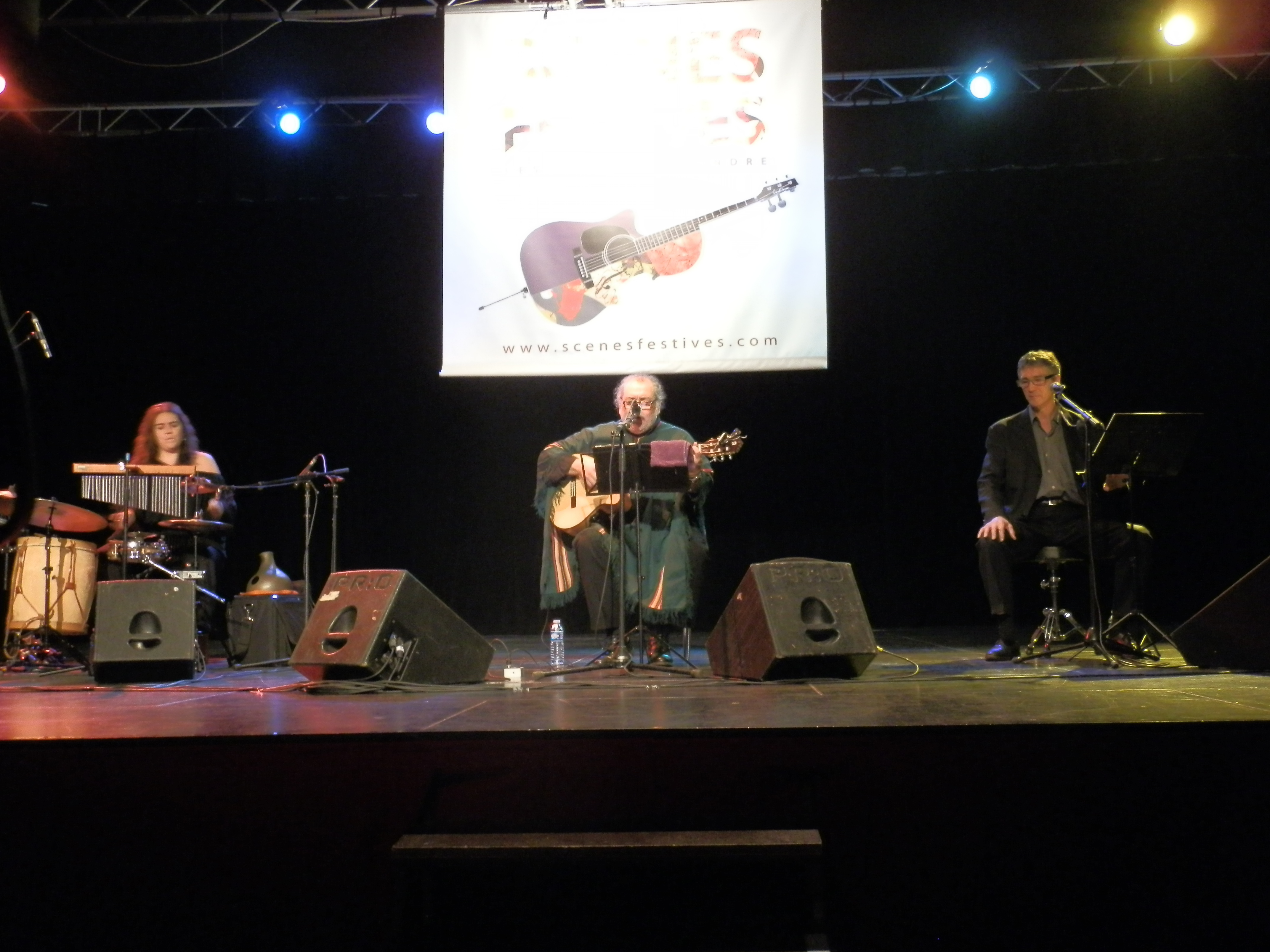 Show Vientos de la Pampa with Hugo Diaz Cardenas on guitar, Vanesa Garcia on percussion and Pierre Rousselle as spoken words